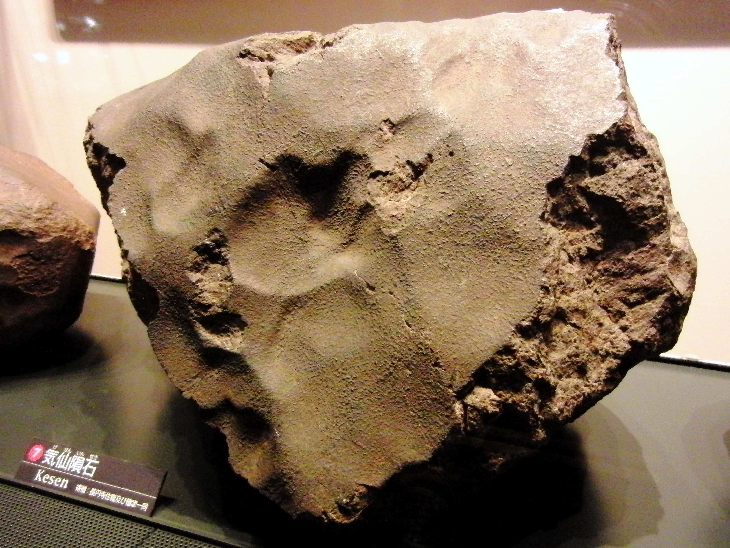 Kesen meteorite. Exhibit in the National Museum of Nature and Science, Tokyo, Japan.